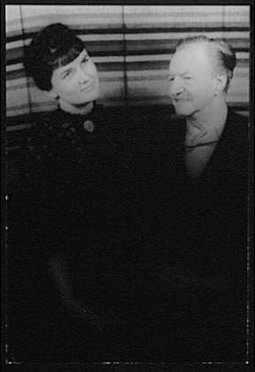 Title: Portrait of Alexander King and Margie King Abstract/medium: 1 photographic print : gelatin silver.